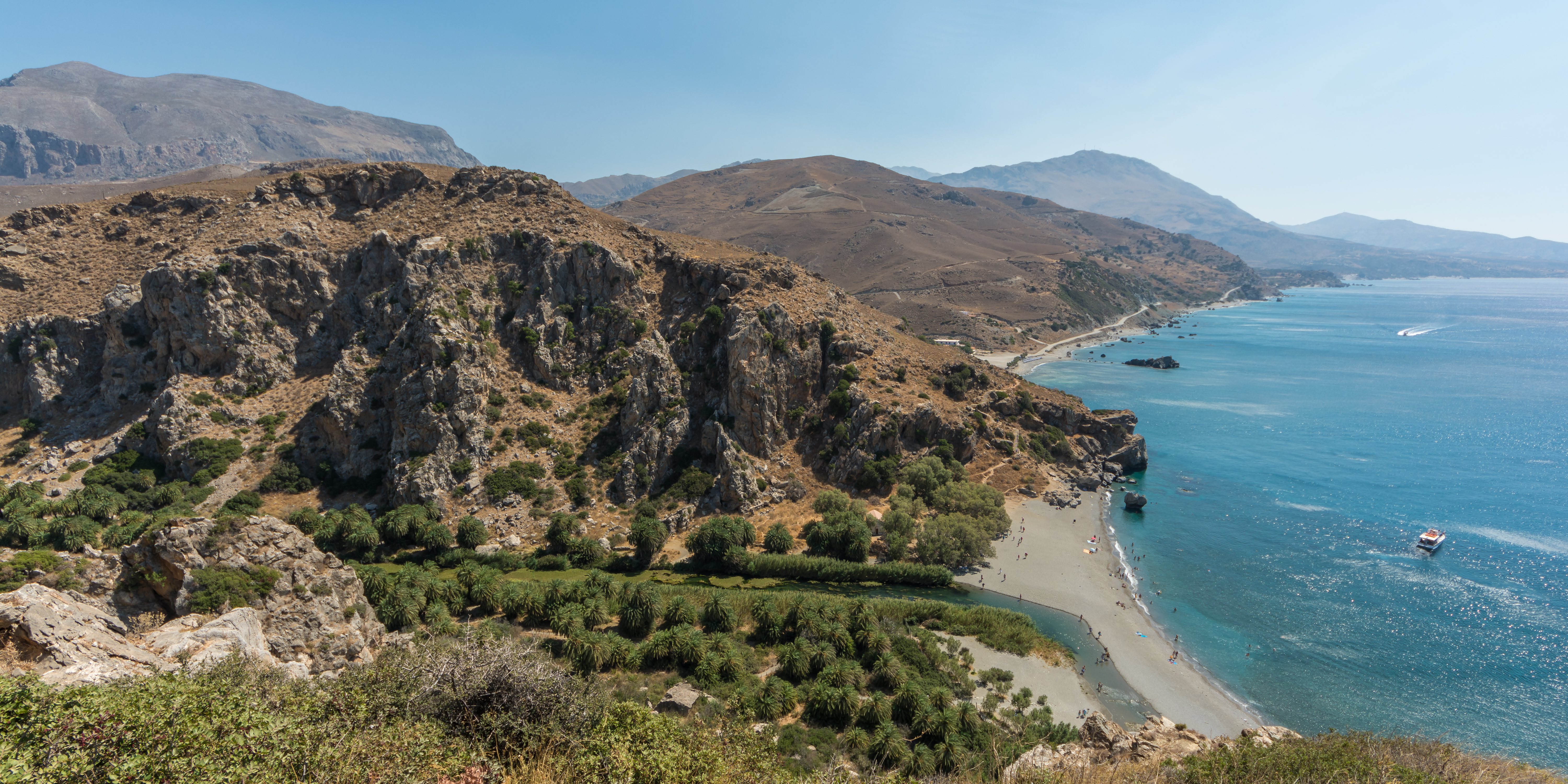 Panorama of the palm beach of Preveli with the mouth of Megalopotamos river, Crete